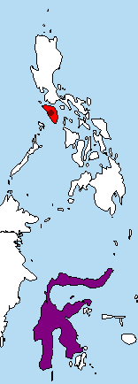 Distribution of the bat genus Styloctenium in the Philippines and Sulawesi (Indonesia).